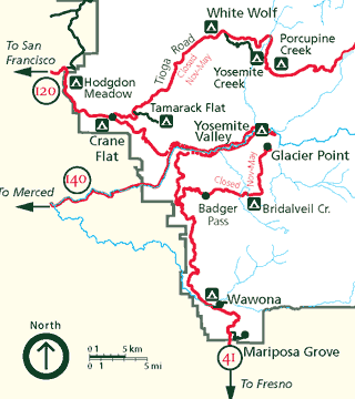 Cropped version of NPS Yosemite Park map